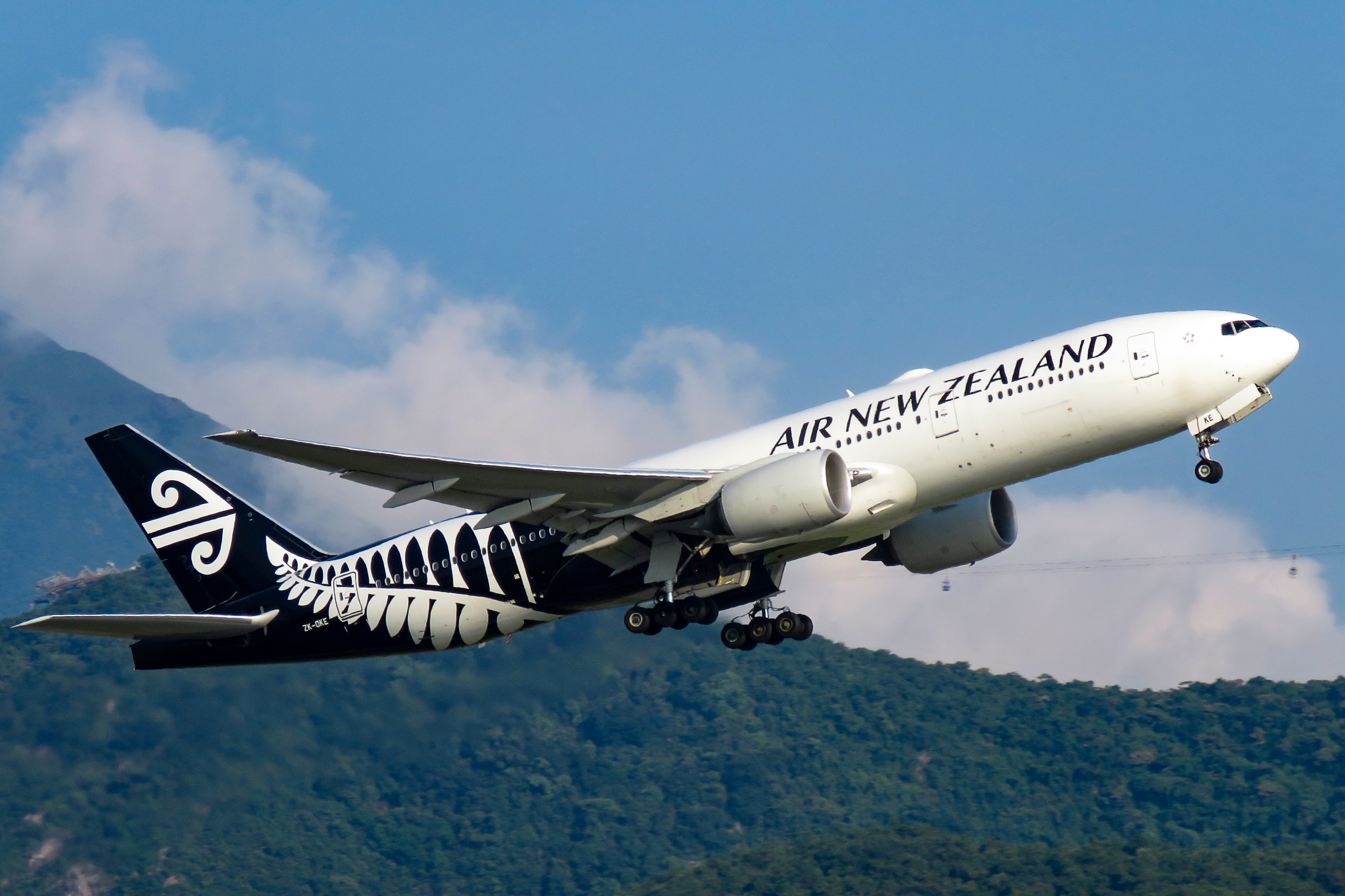 New Zealand 80 to Auckland. ZK Orchestra (Ōkesutora)?